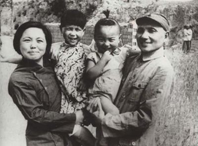 Deng xiaoping and his family in 1945.